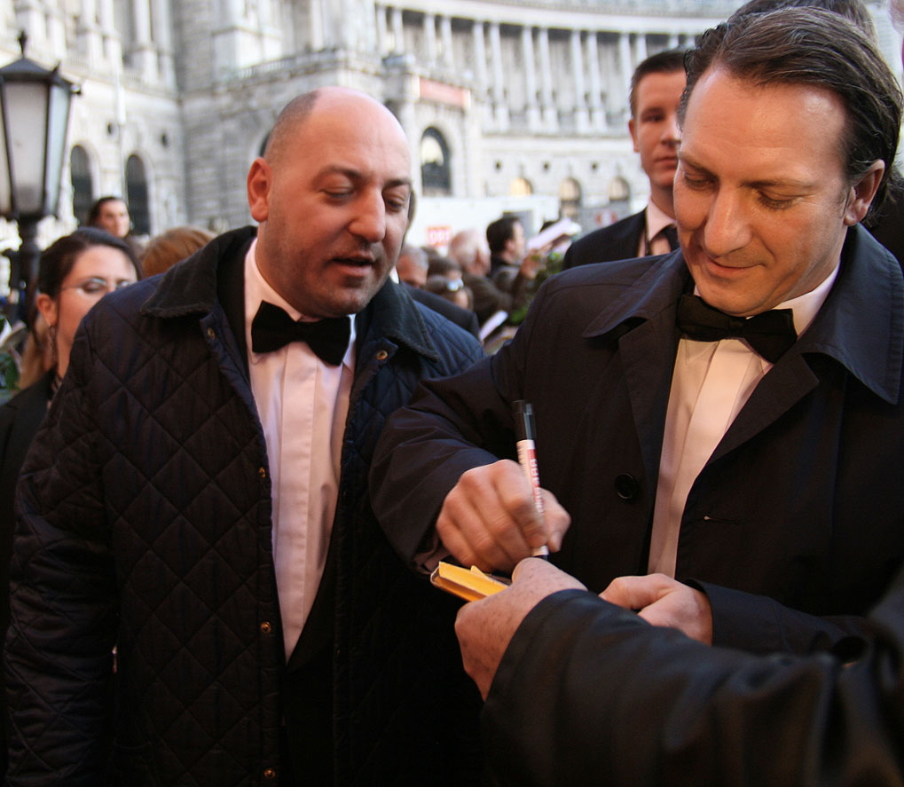 Rudolf Roubinek and Robert Palfrader at the Romy TV awards (Hofburg Imperial Palace in Vienna)